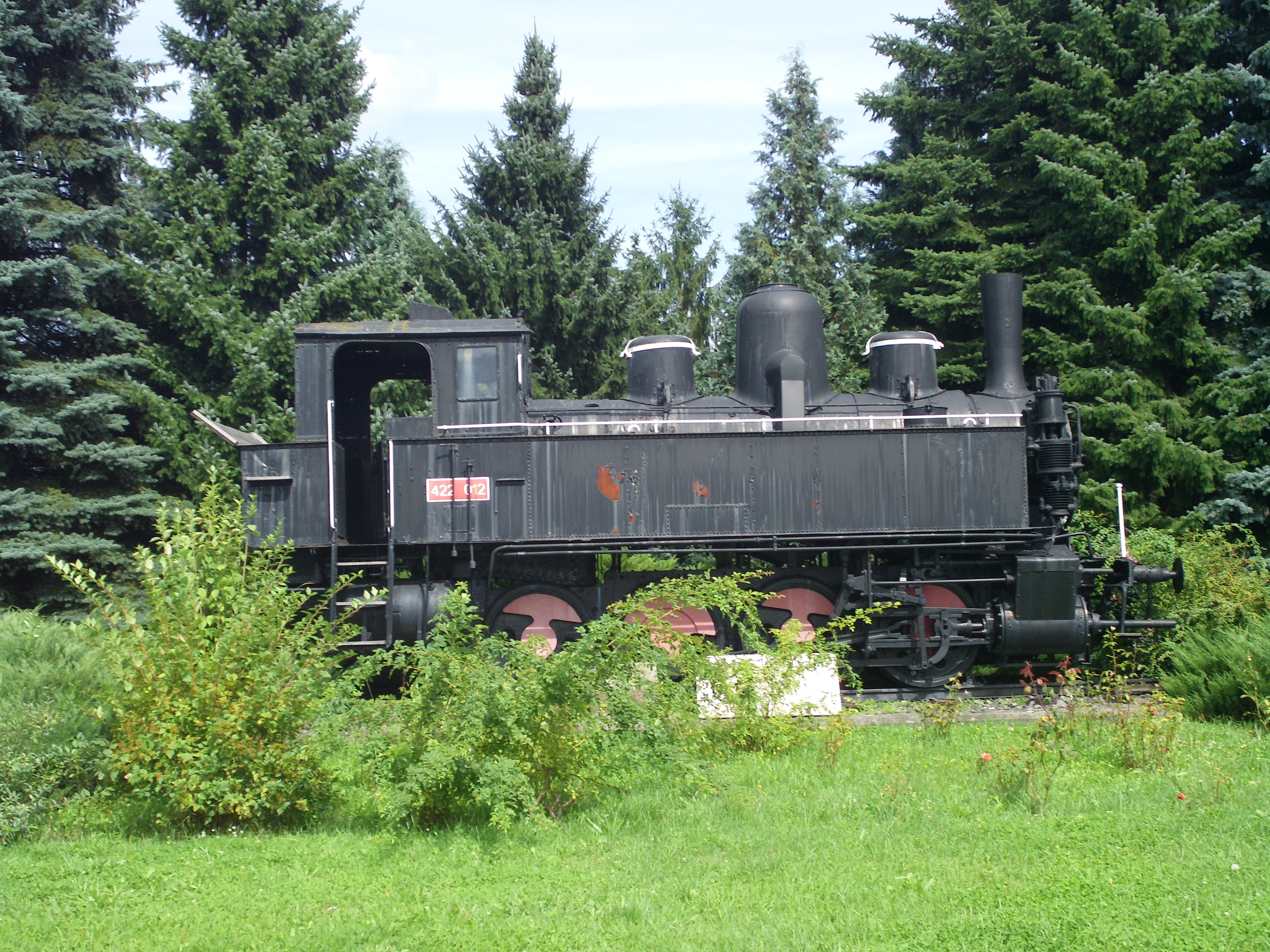 Steam engine 422 012, on display inside a ŽOS factory in Zvolen, Slovakia